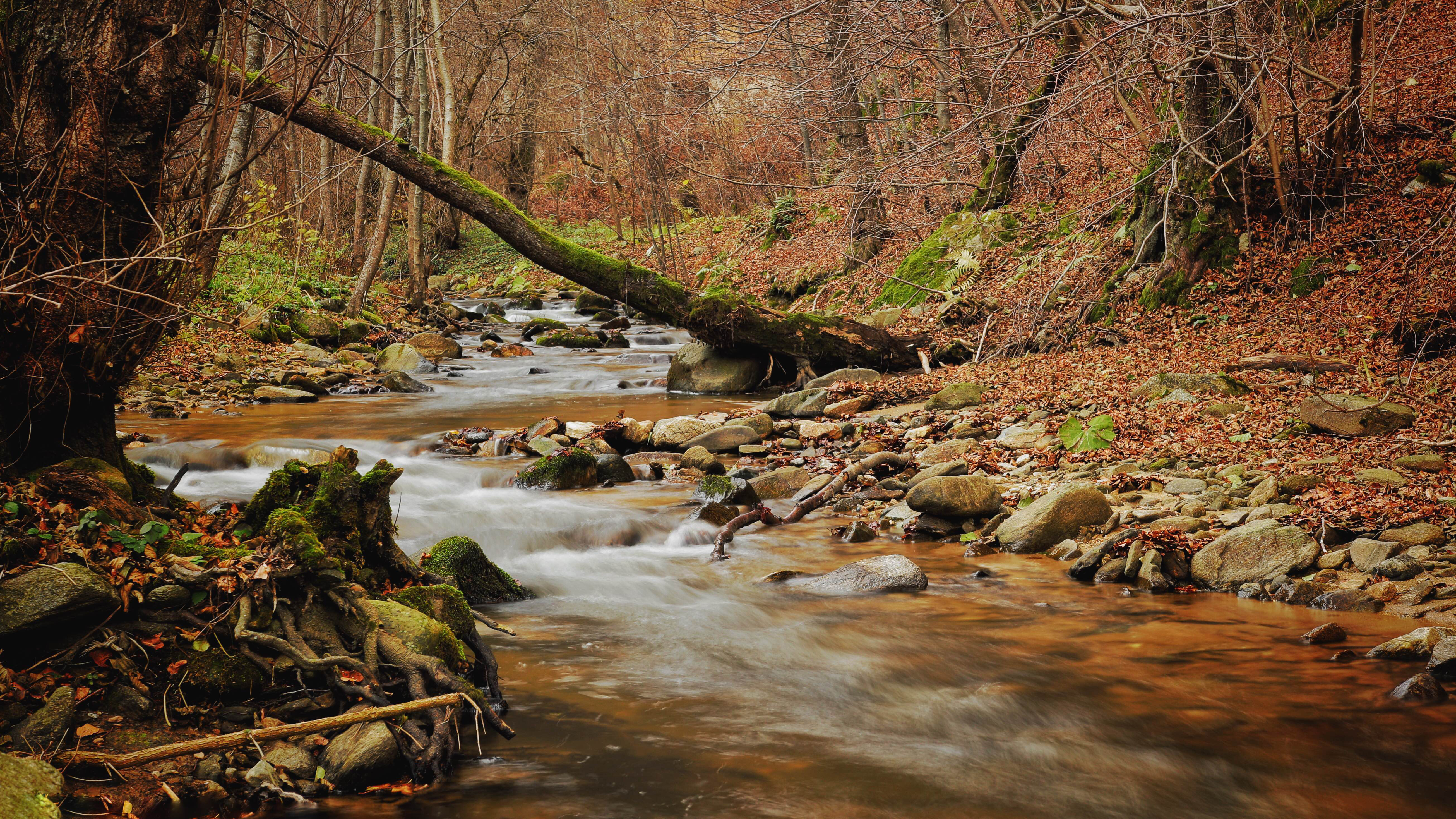 Bregalnica at Ravna Reka, Macedonia